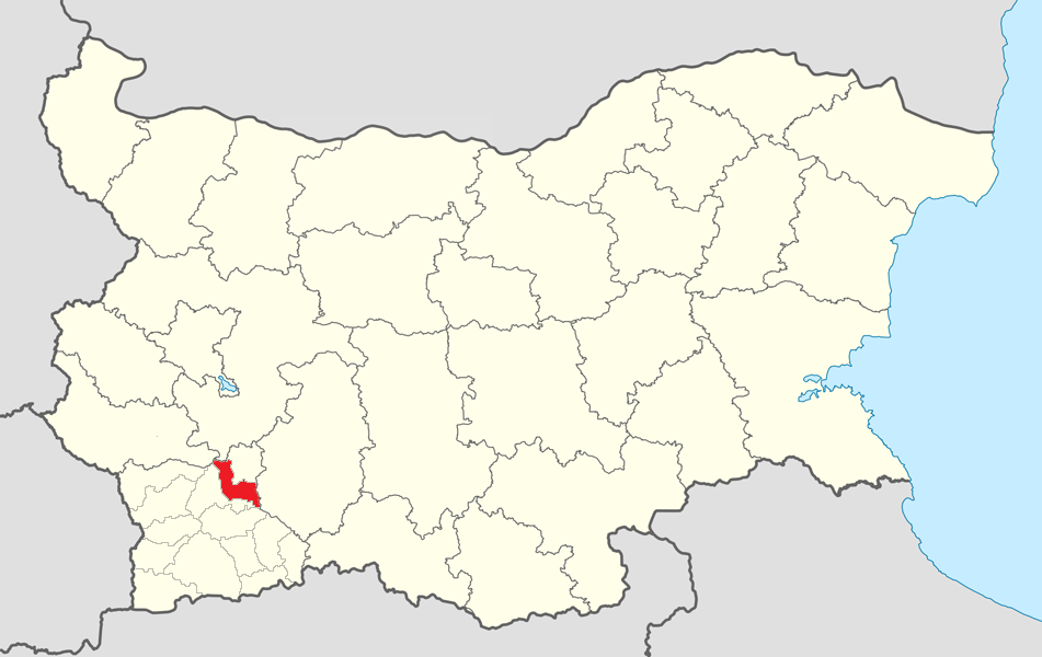 Location map of Belitsa Municipality within Bulgaria and Blagoevgrad province